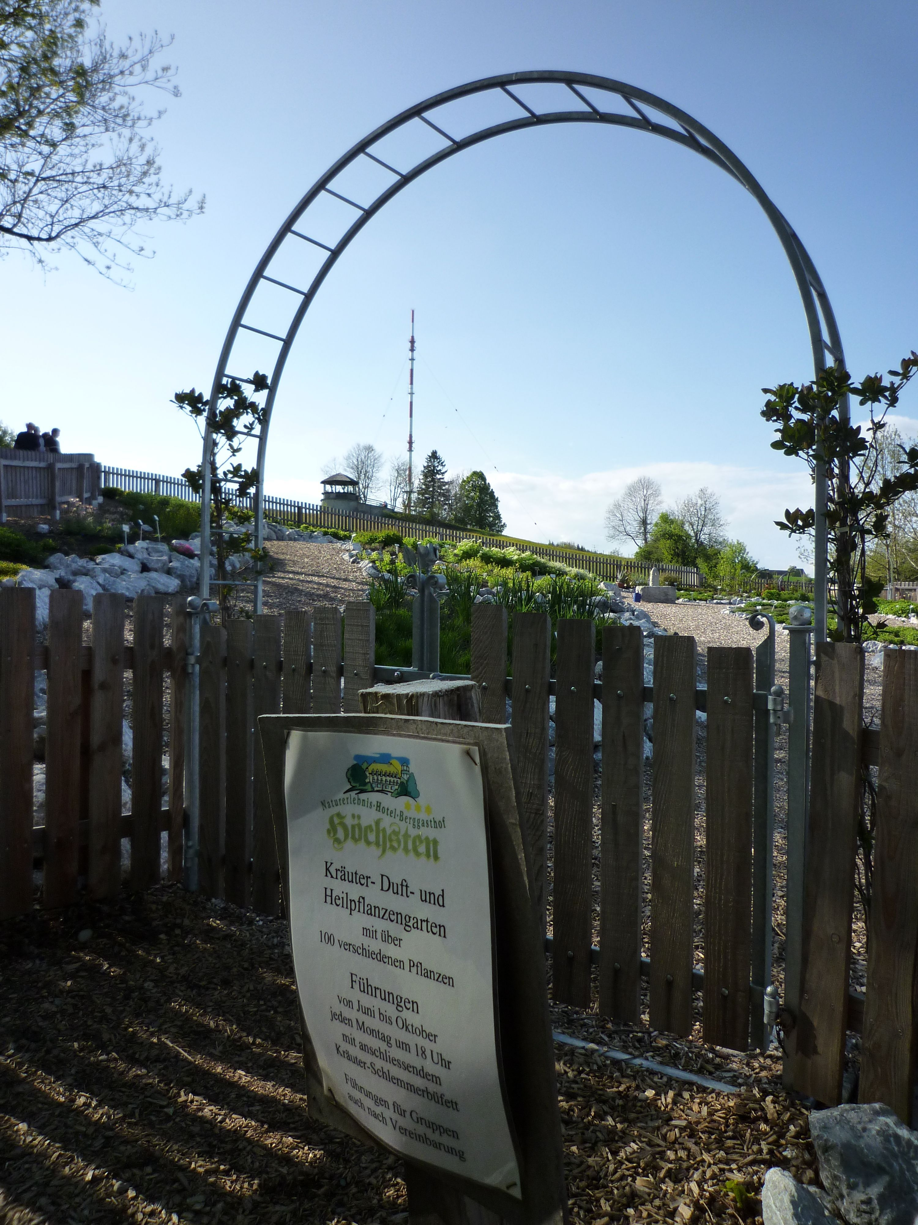 Höchsten, a hill in Baden-Württemberg. Pedestrian round path to point out different expresssions in Alemannic and Suebian language. At the end of the path a kitchen herb garden.